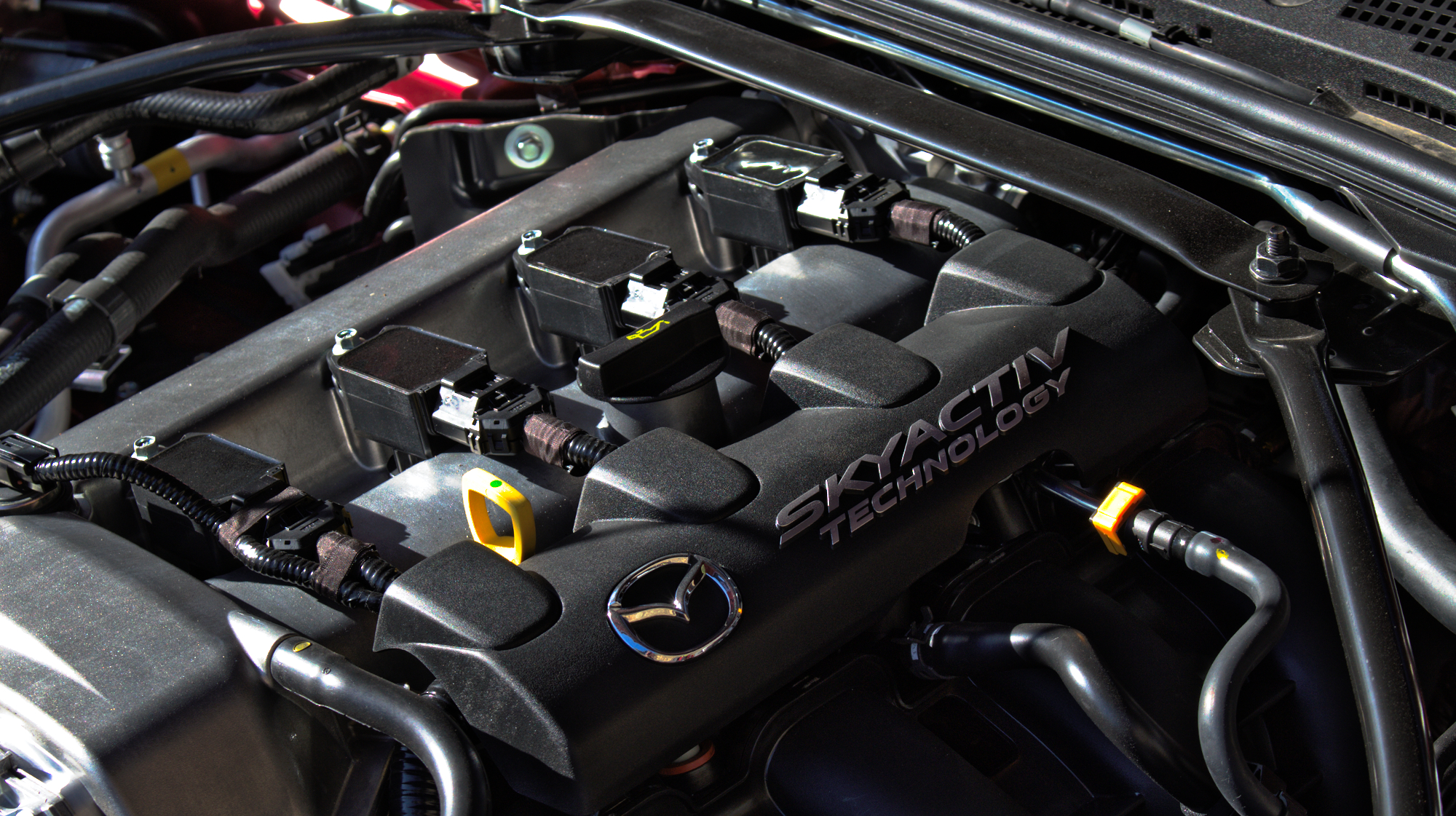 Mazda MX-5 ND 2.0 SKYACTIV-G 160 i-ELOOP Engine Bay